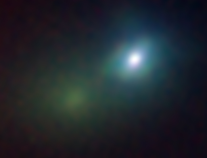 Infrared image of galaxy NGC 1260 with supernova SN 2006gy, using adaptive optics at the Lick Observatory. The galactical center NGC 1260 of is placed in the lower left from center of image, bright point in upper right is SN 2006gy.